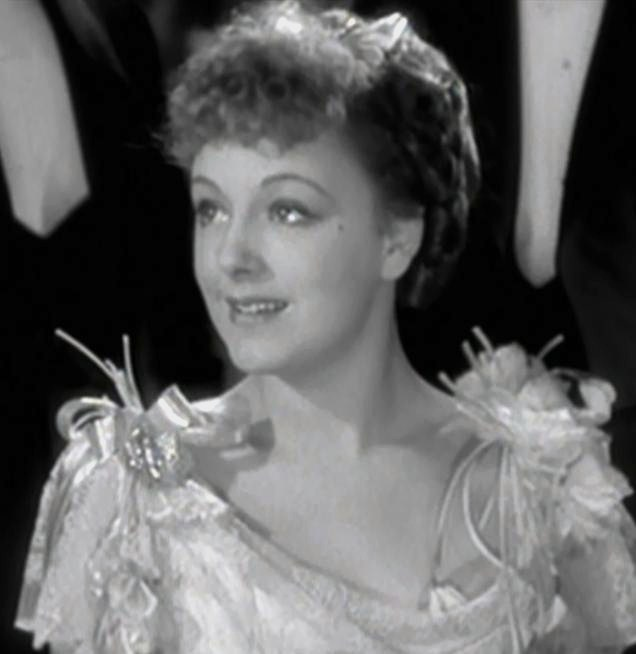 Virginia Field in Little Lord Fauntleroy (cropped screenshot)